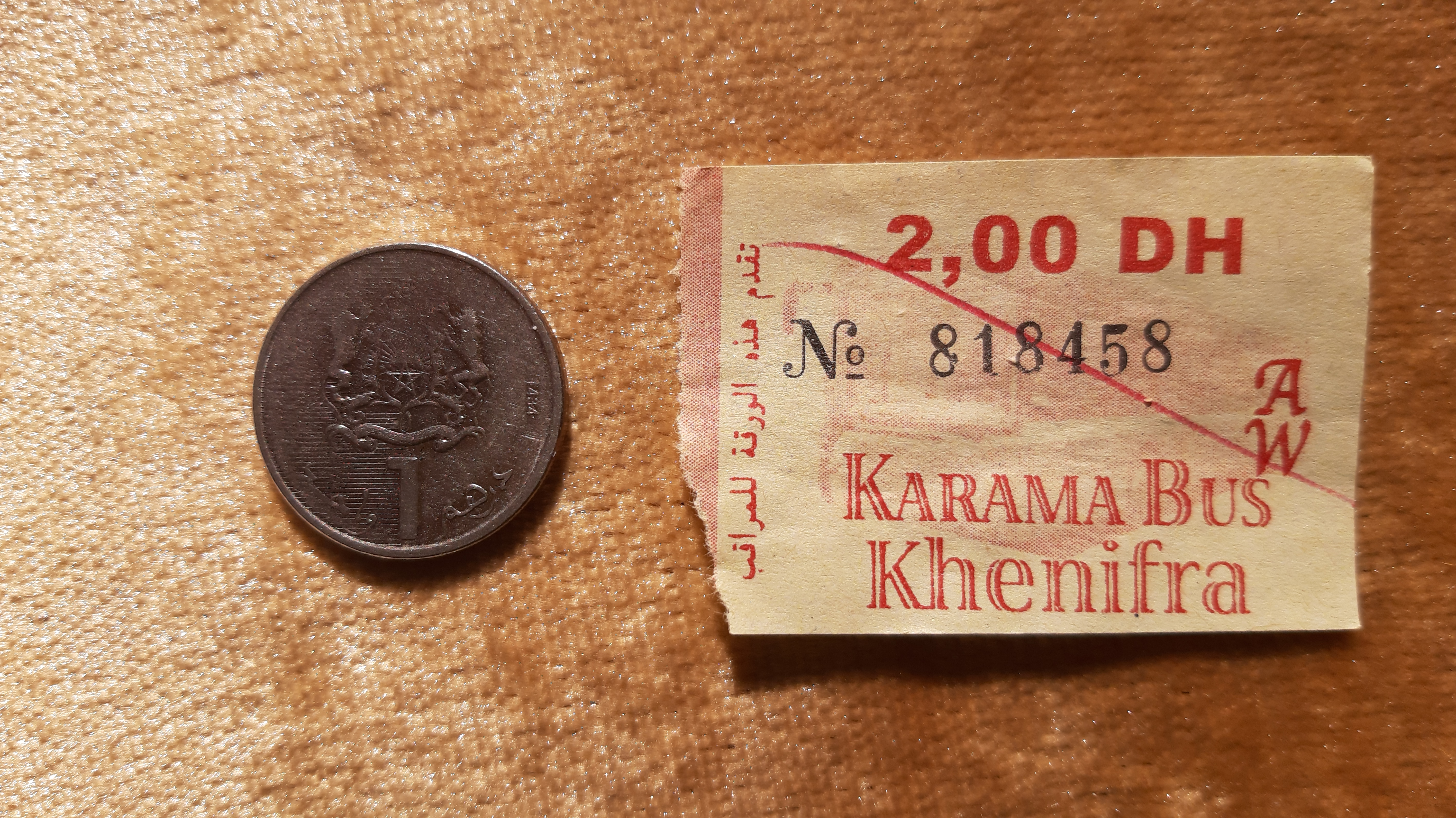 This is an image with the theme "Africa on the Move or Transport" from: Morocco